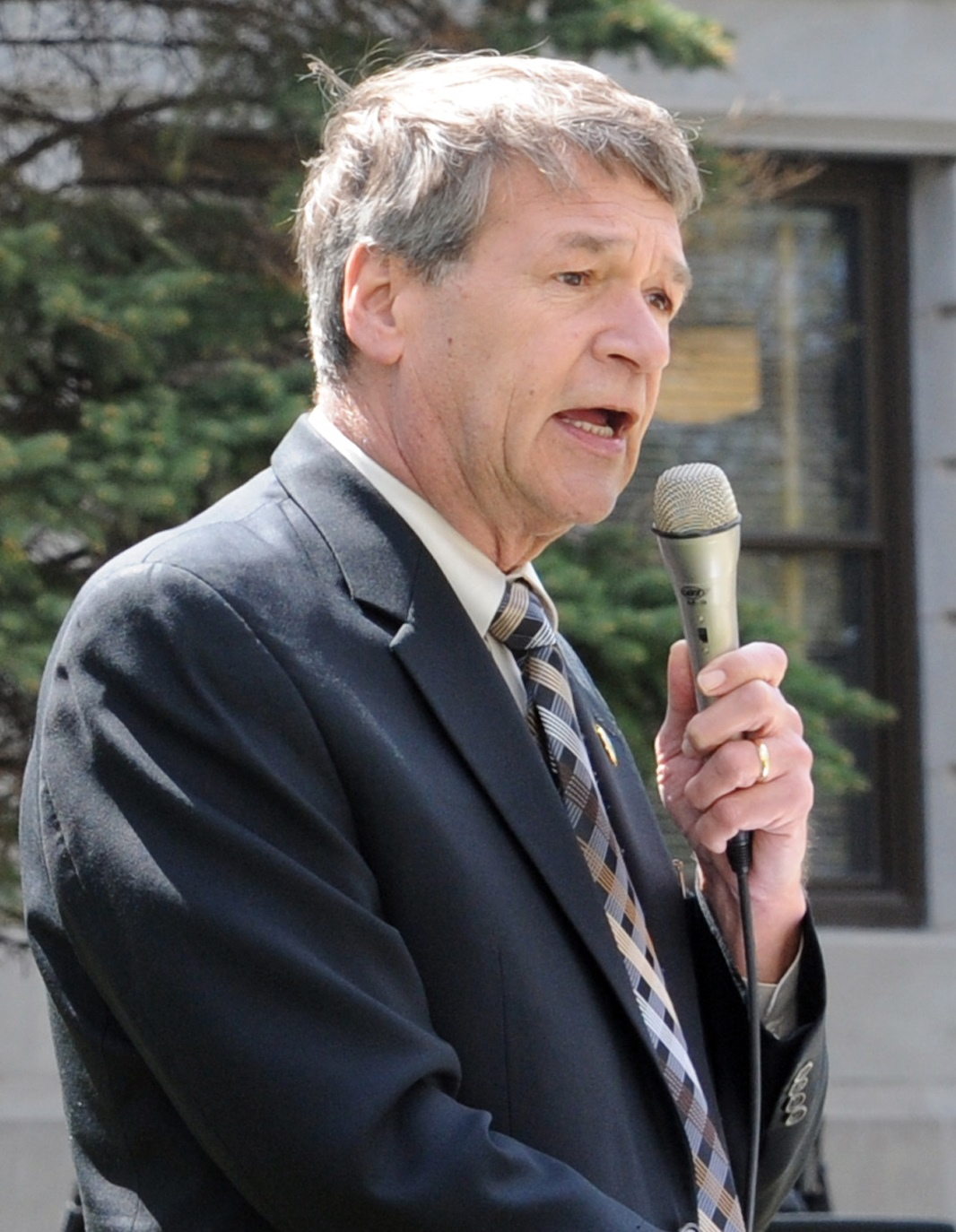 Cropped version of File:Wayne Stenehjem 2015 Police Week memorial.jpg, a file in the public domain.